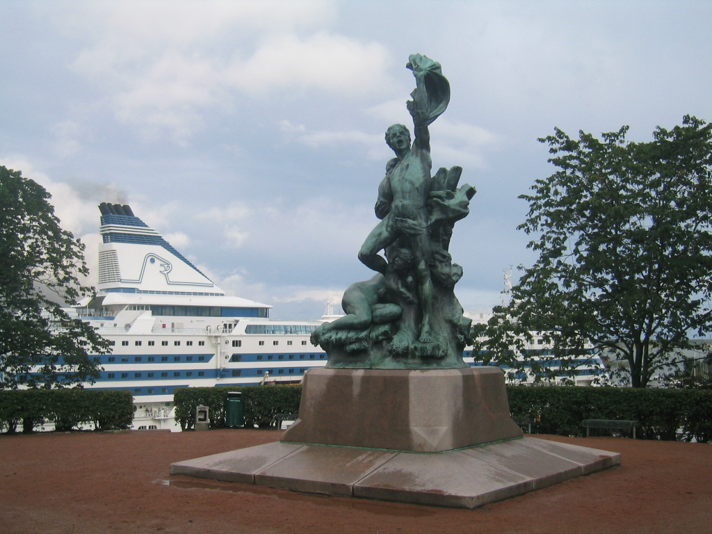 Tähtitornin vuori in Helsinki, Finland